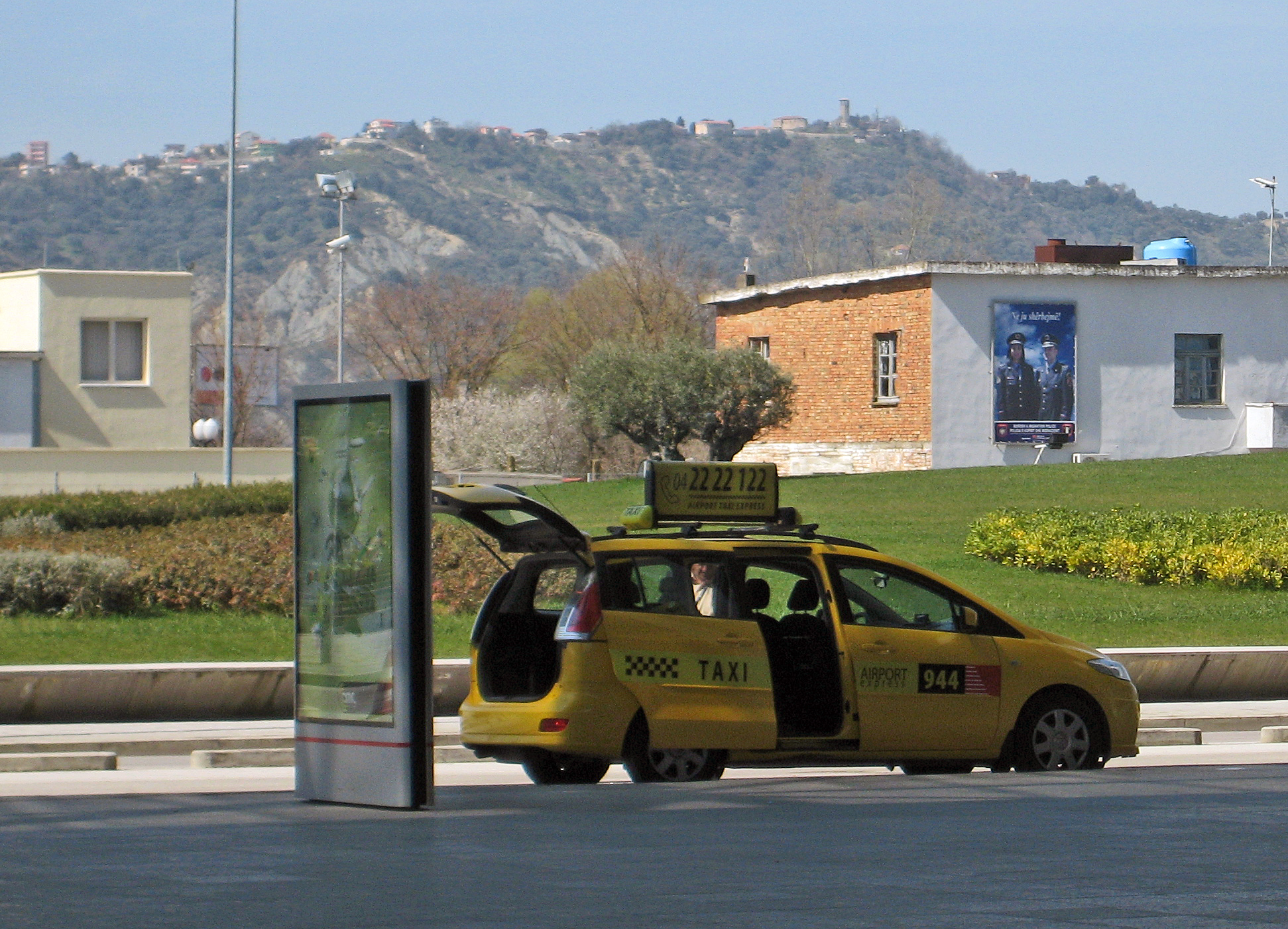 Tirana Airport with Preza Castle in the Background